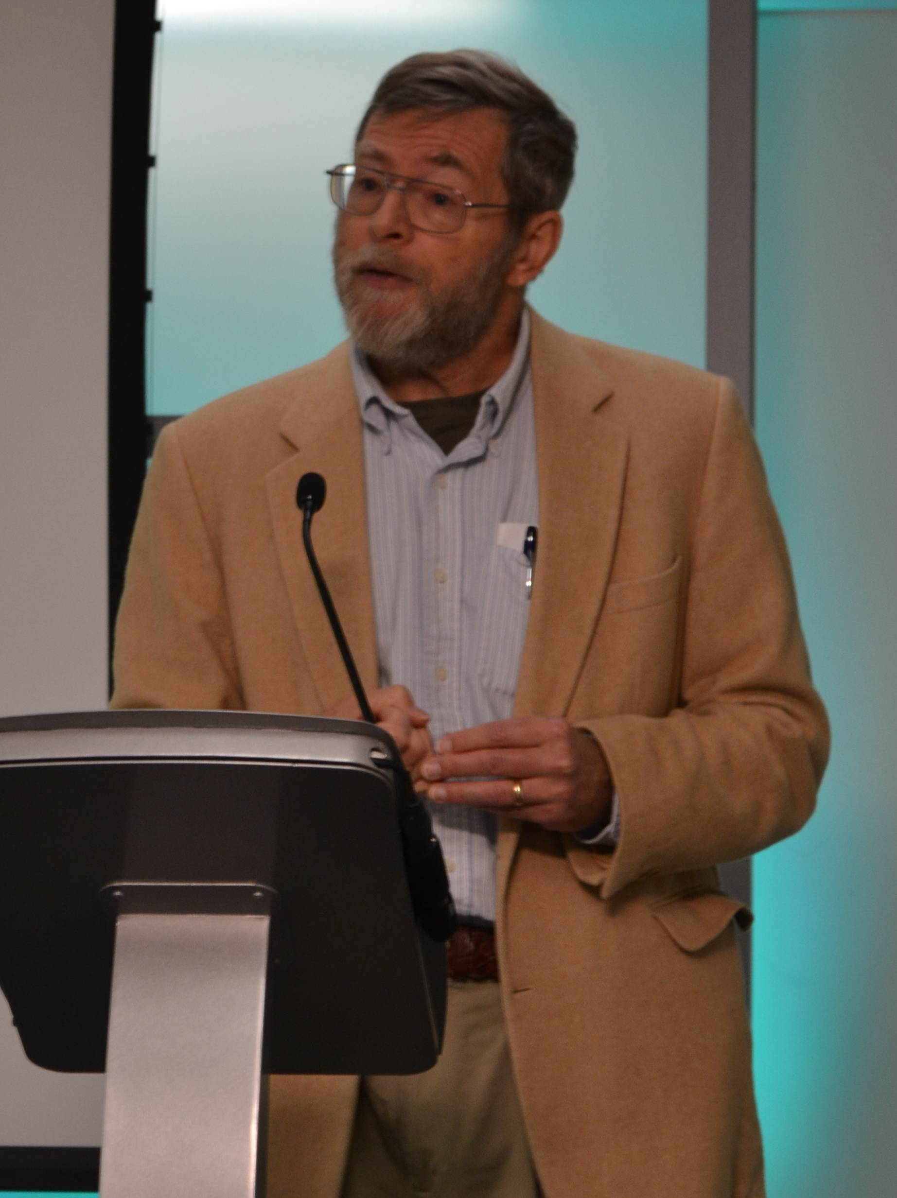 2014-01-15 Future Tense Event: How Will Human Ingenuity Handle a Warming Planet?